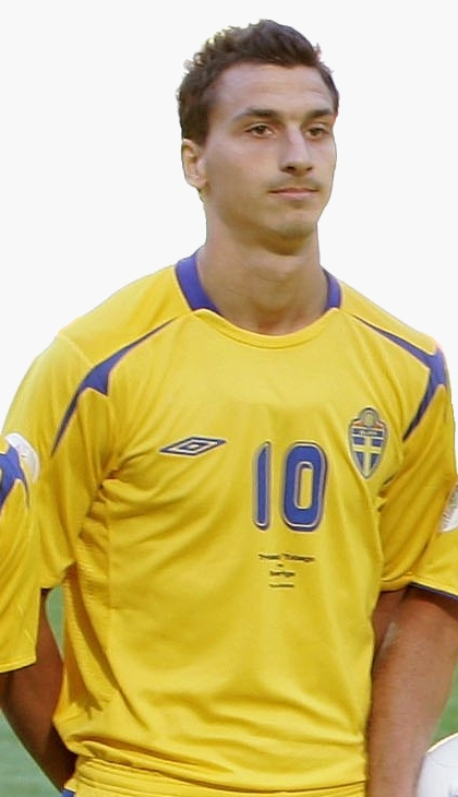 Zlatan Ibrahimovic (Swedish national football team) before the FIFA World Cup match against Trinidad and Tobago on June 10, 2006